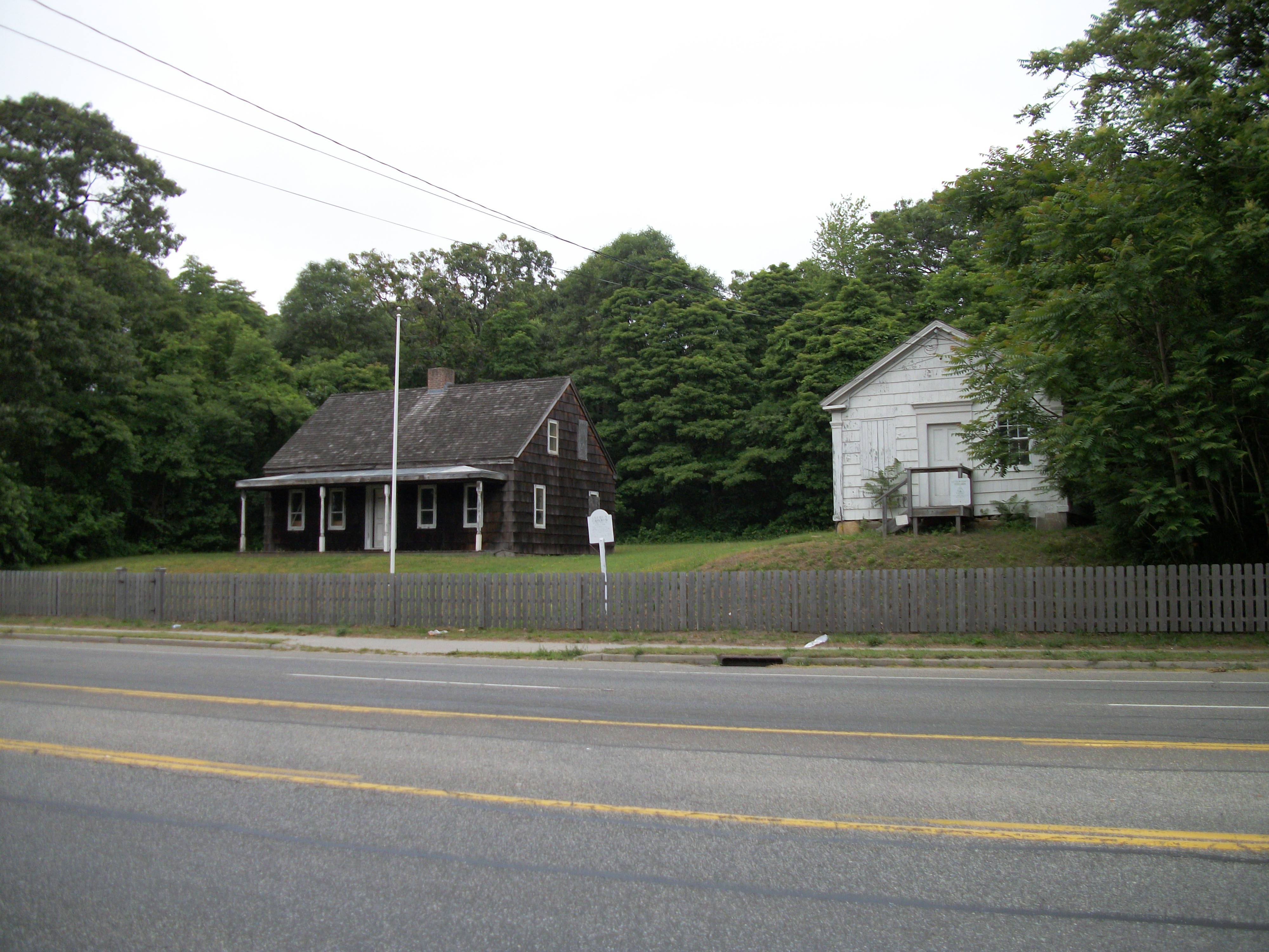 The historic Bald Hill Schoolhouse on Horse Block Road in Farmingville, New York. I read about what the other building is in a book on historic Long Island pictures, but I forgot what it was.